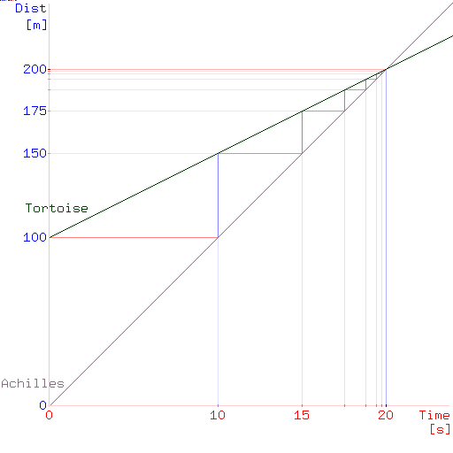 Diagram of distance vs. time for the footrace between Achilles and the tortoise. According to Zeno, Achilles can never overtake the tortoise.